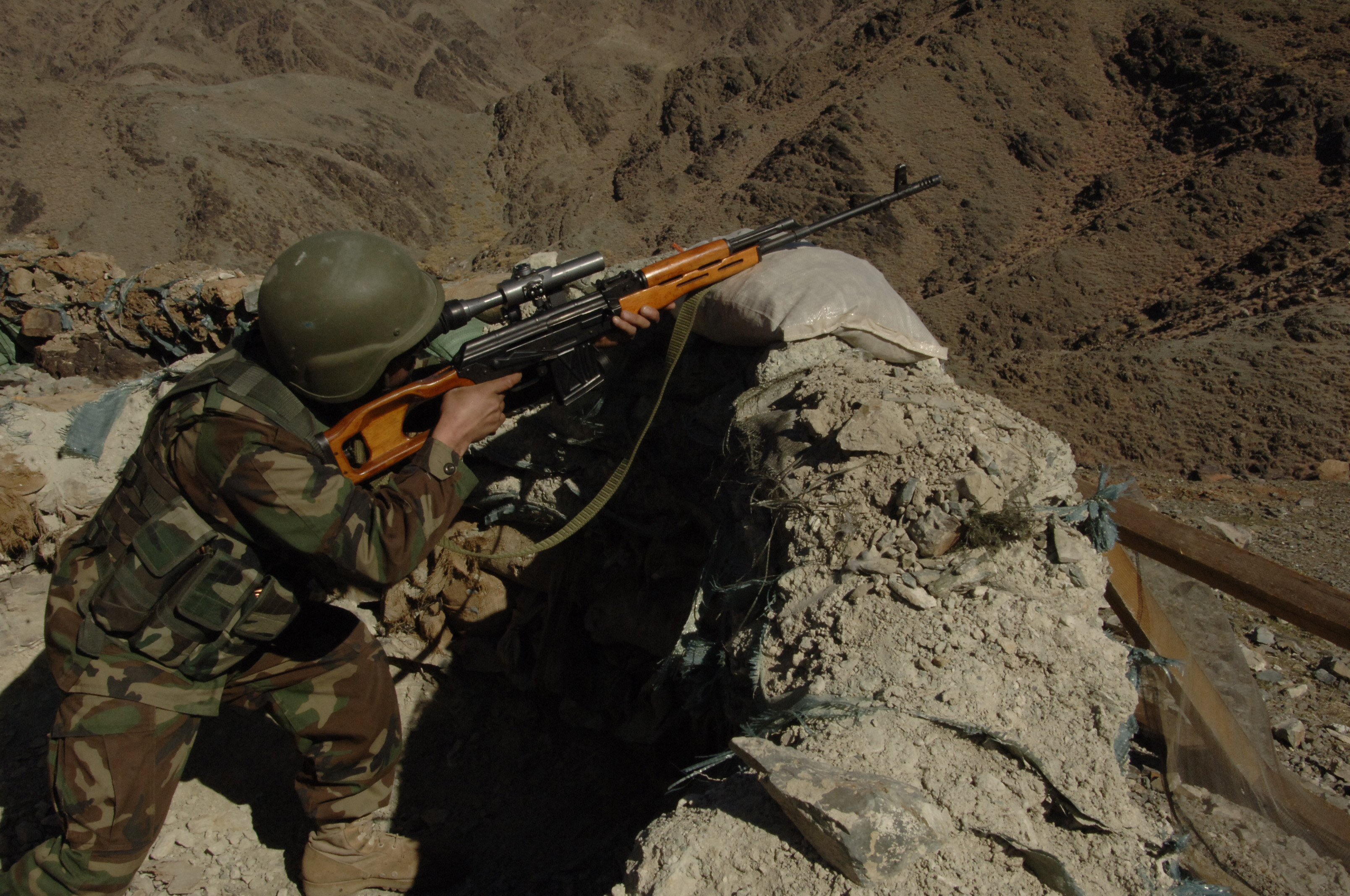 An Afghan National Army soldier uses a Dragunov sniper rifle PSL designated marksman rifle during a demonstration to display weaponry and communicatons capabilities at Camp Joyce, Afghanistan, Feb. 12, 2008. (U.S. Army photo by Spc. Jordan Carter) (Released)